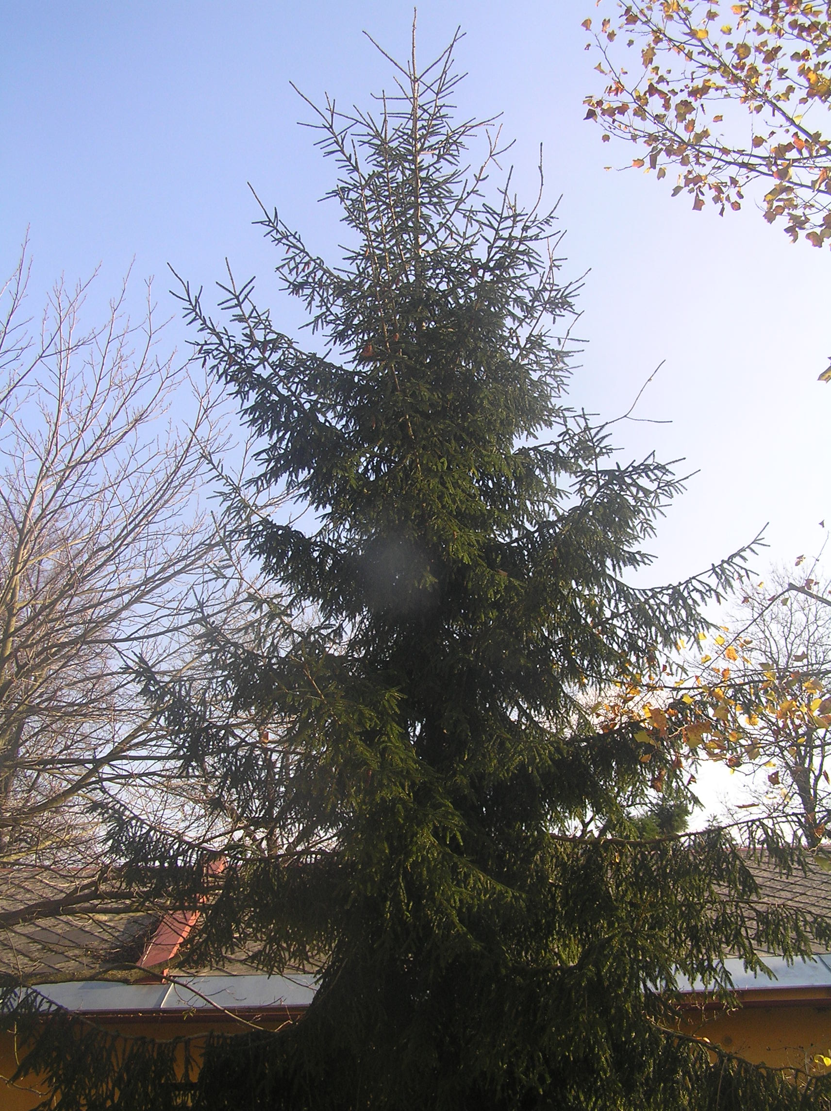 Picea orientalis, cultivated in the Czech Republic, arboretum Žampach